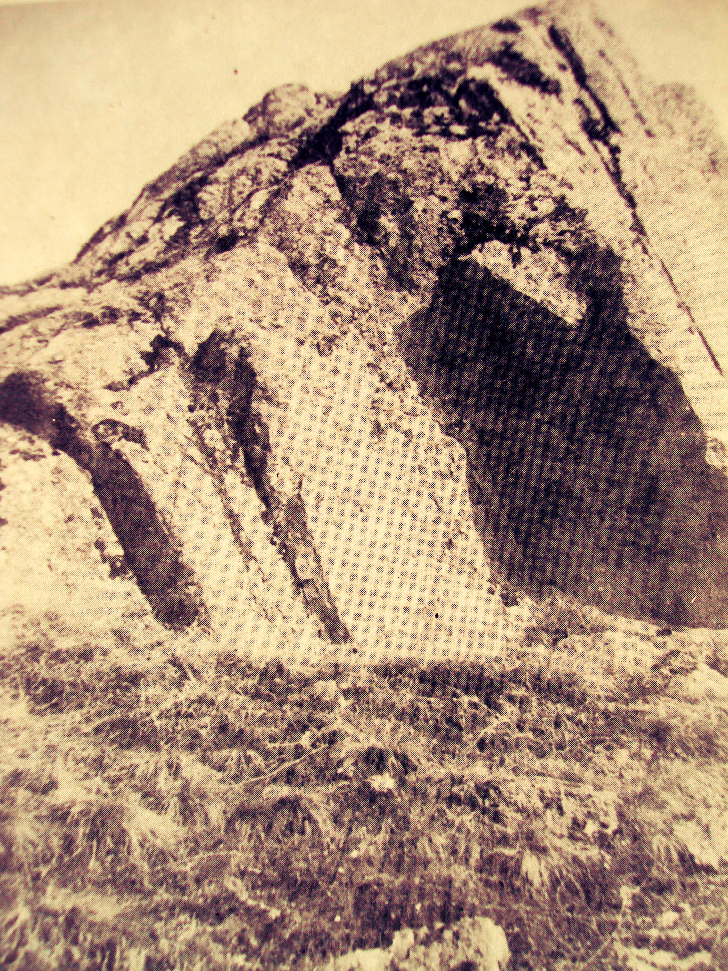 Solar clock Berayntzi BG